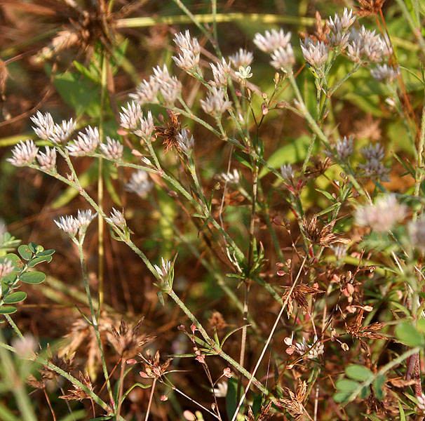 Polycarpaea corymbosa (Synonyms: Achyranthes corymbosa, Polycarpaea nebulosa)- Oldman's Cap • Hindi: Bugyale • Marathi: Koyap, Maitosin • Tamil: Nilaisedachi, Cataicciver, Pallippuntu • Malayalam: Katu-mailosina • Telugu: Bommasari, Rajuma • Kannada: paade mullu gida, poude mullu, poude mullu gida • Sanskrit: Bhisatta, Okharadi, Parpata, Tadagamritikodbhava- in Herbal Garden, in Rangareddy district of Andhra Pradesh, India.